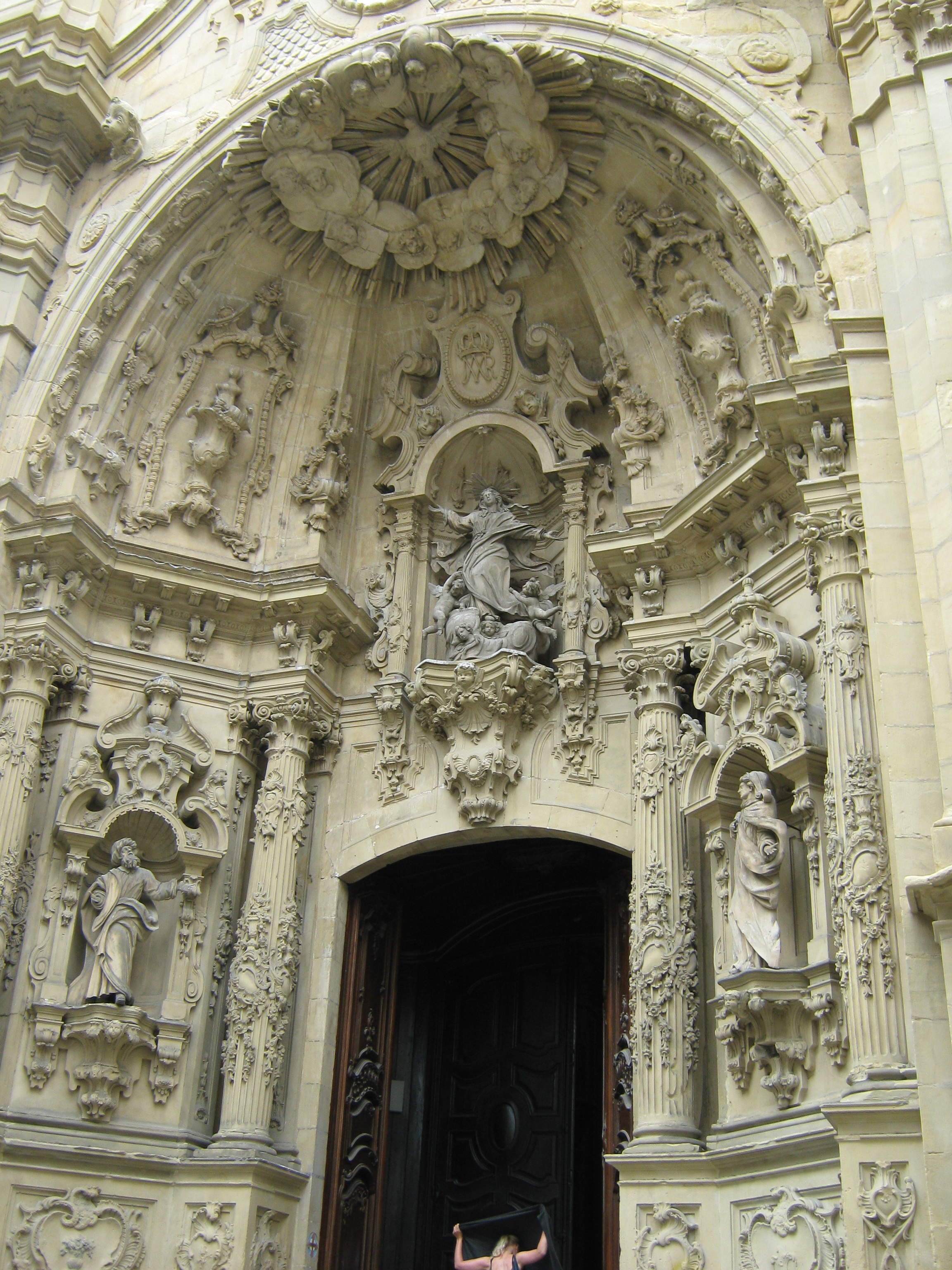 Santa Maria del Coro basilica portal (Donostia-San Sebastián, Spain)